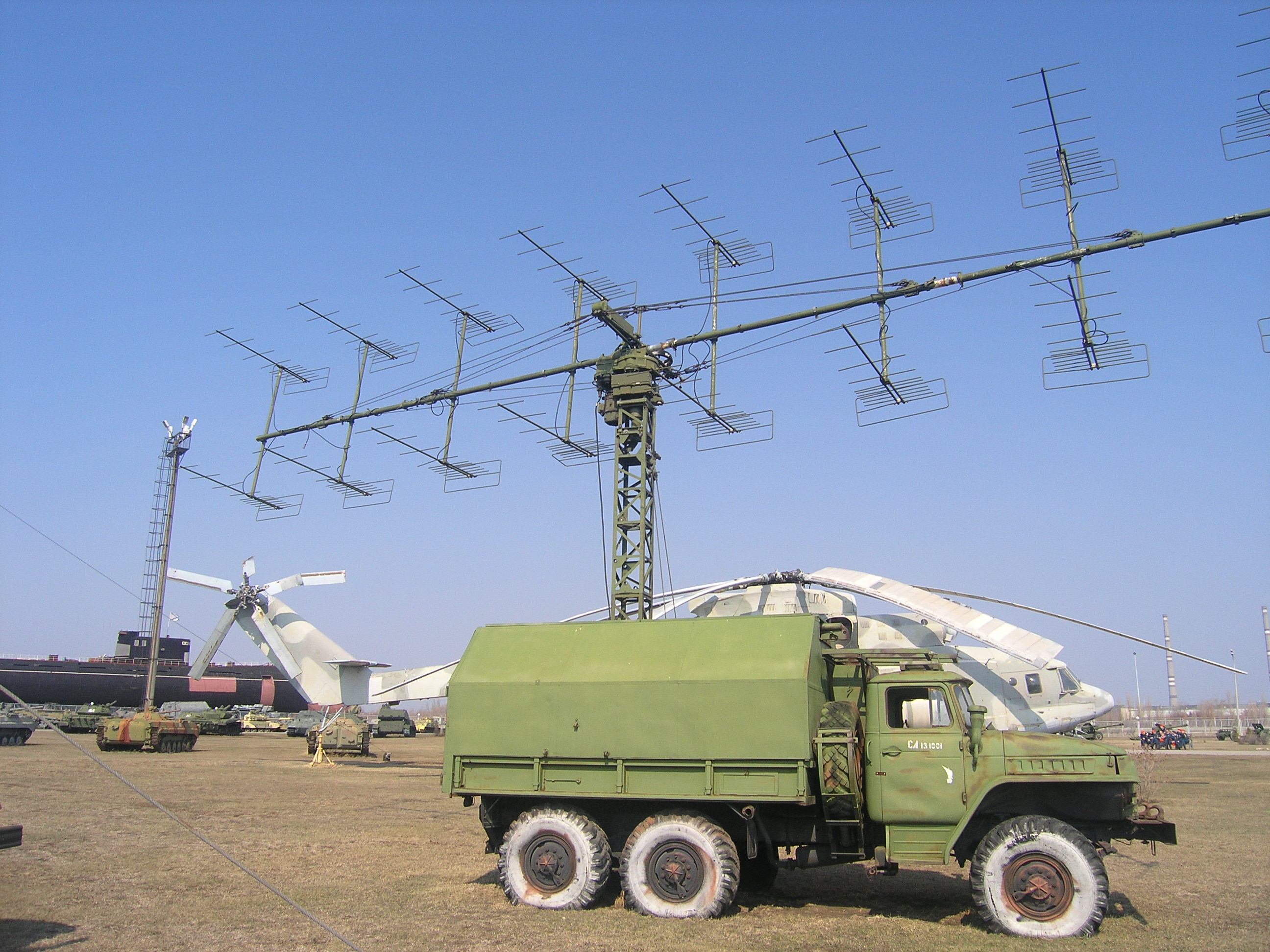 A Soviet P-18 air defense radar system. Technical museum Togliatti